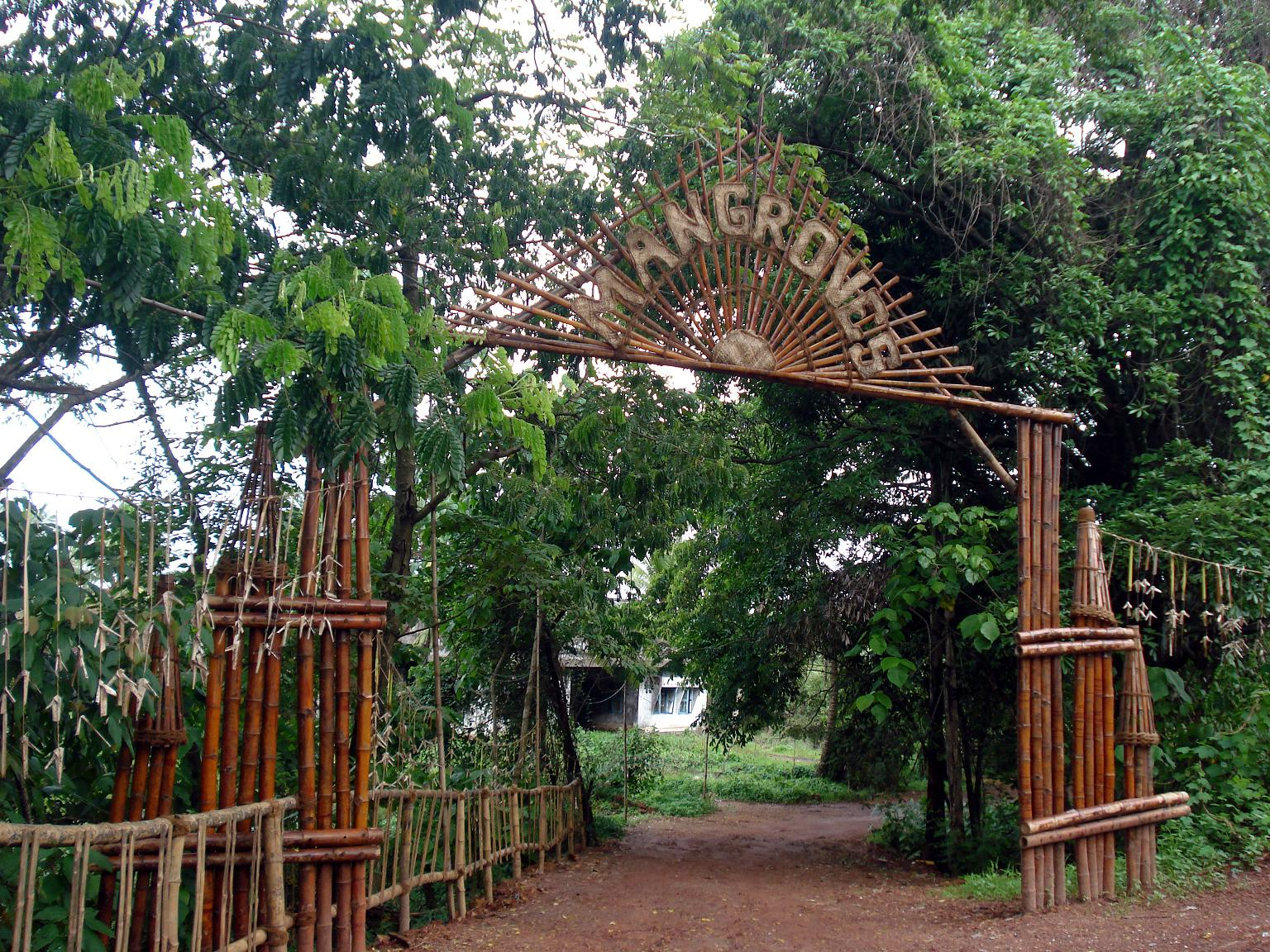 Mangroves park pappinisseri, Kannur, Kerala, India. This park was build during 2010 and closed after some months.